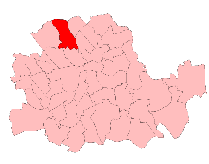 A map of St Pancras North constituency within the London County Council area, as it existed from 1950 to 1974.